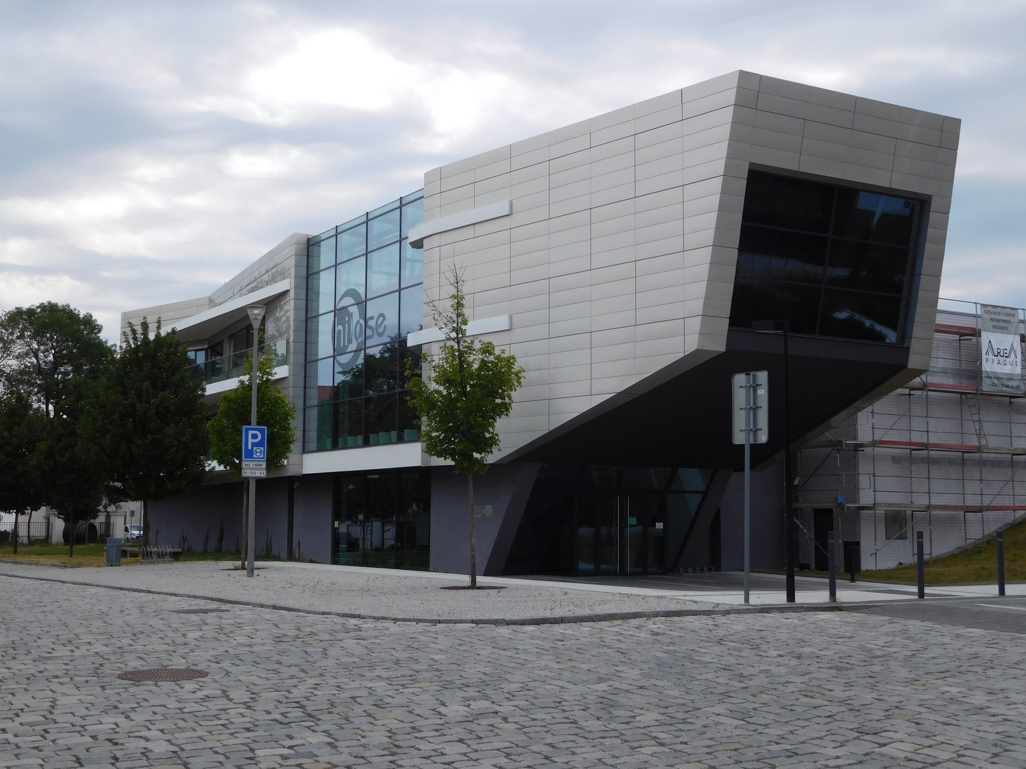 Research center HiLASE in Dolní Břežany, Czechia